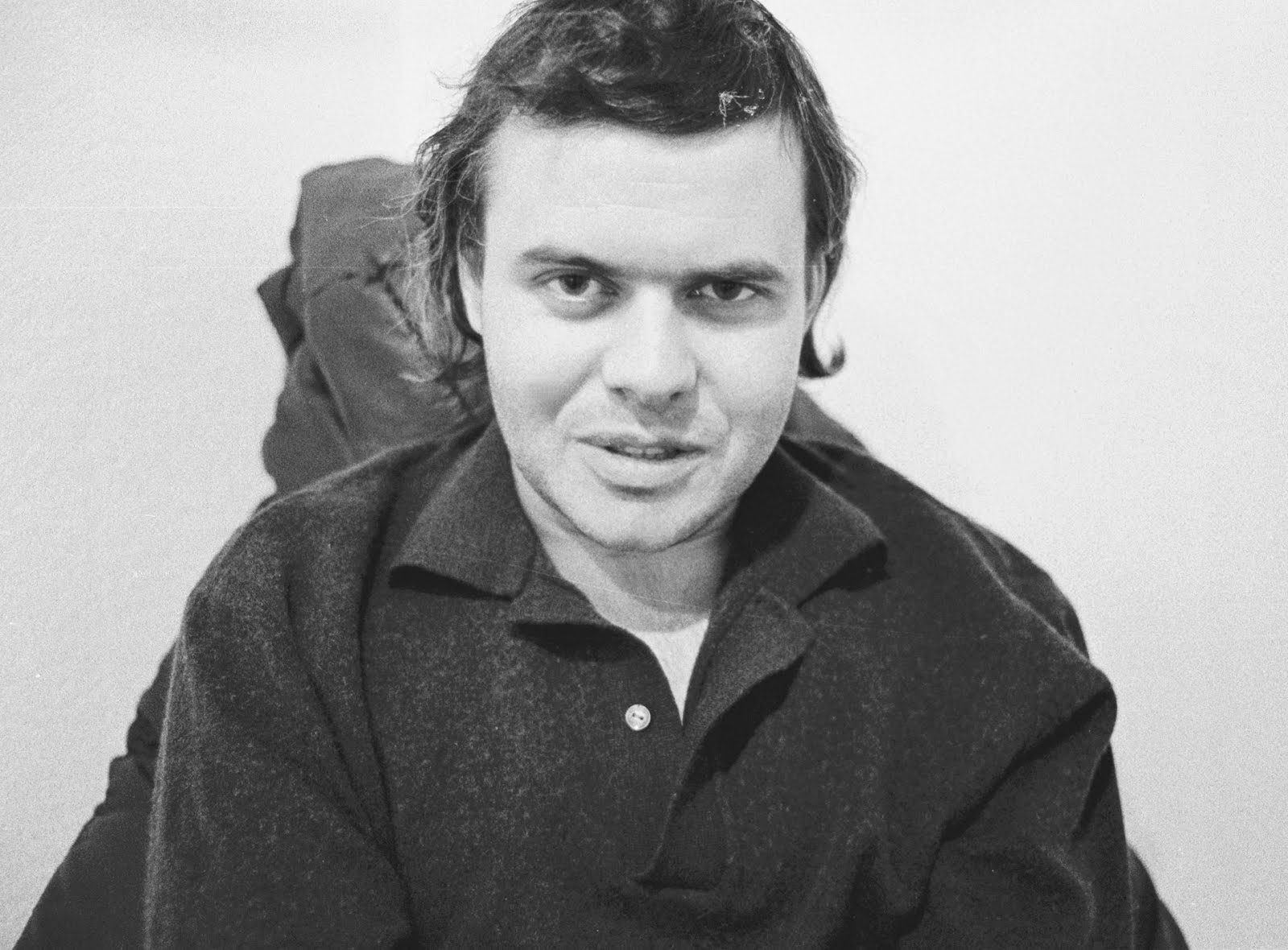 In his Zurich Studio/Home